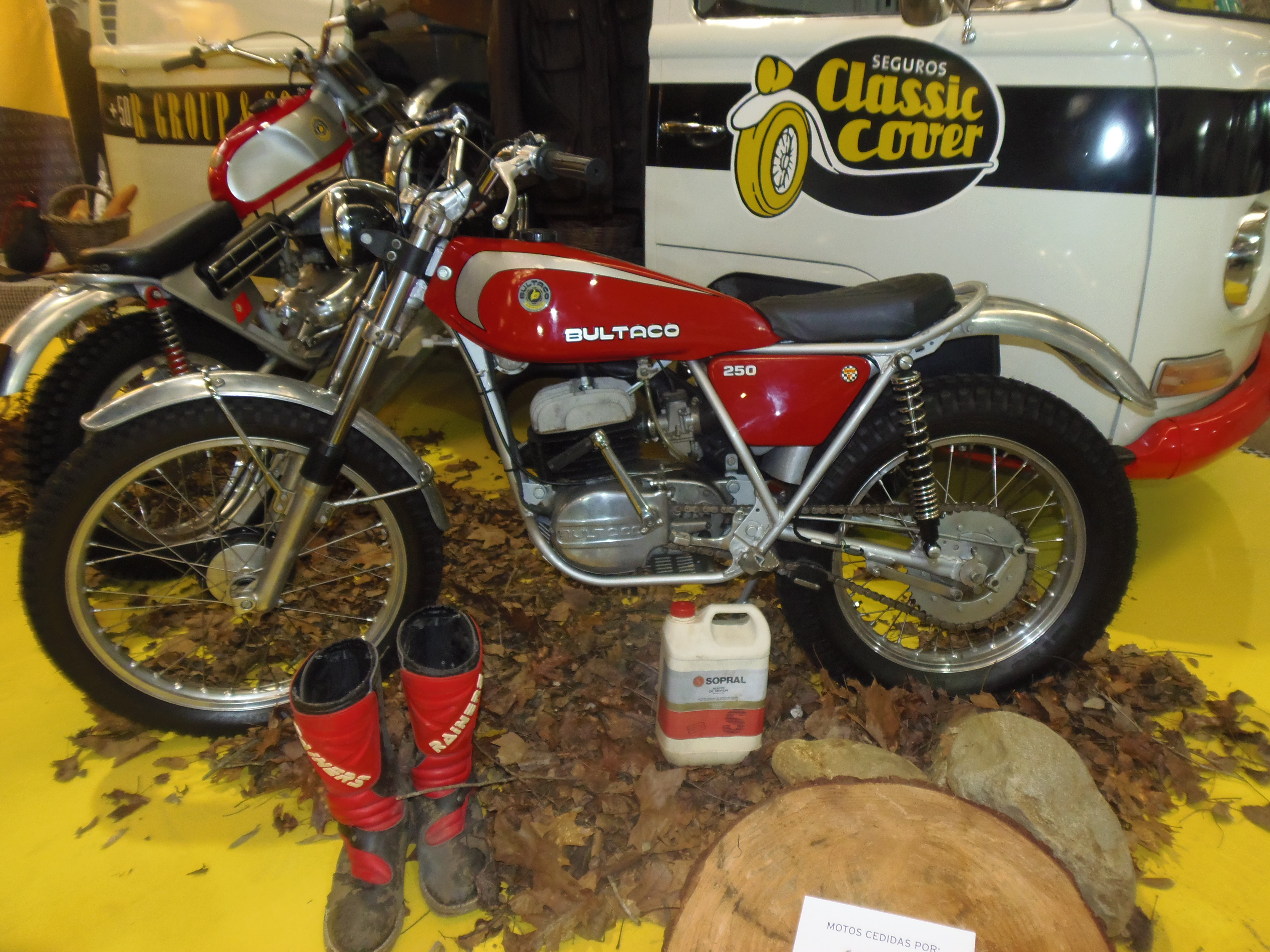 Bultaco Sherpa T 250, Model 158, 1975